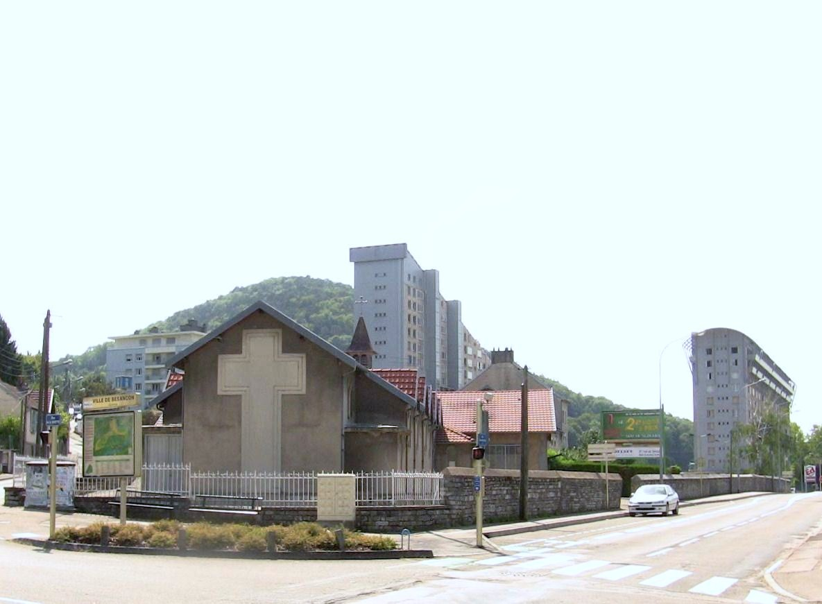 Church of Sainte-Thérèse located in the area of Grette, in Besançon (Doubs)